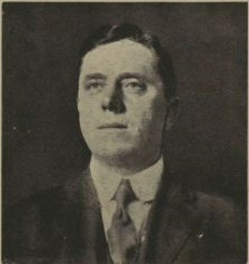 John William Bowen, General Secretary of the Union of Post Office Workers and future MP